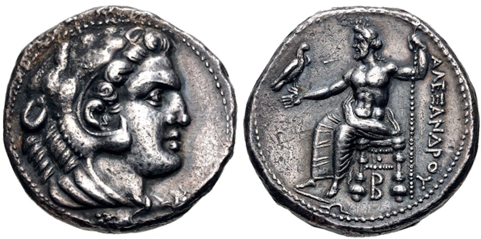 KINGS of MACEDON Alexander III the Great 336-323 BC. Coinage of Alexander the Great struck under Balakros or Menes circa 333-327 BC. The letter "B" appears under the throne of Zeus.